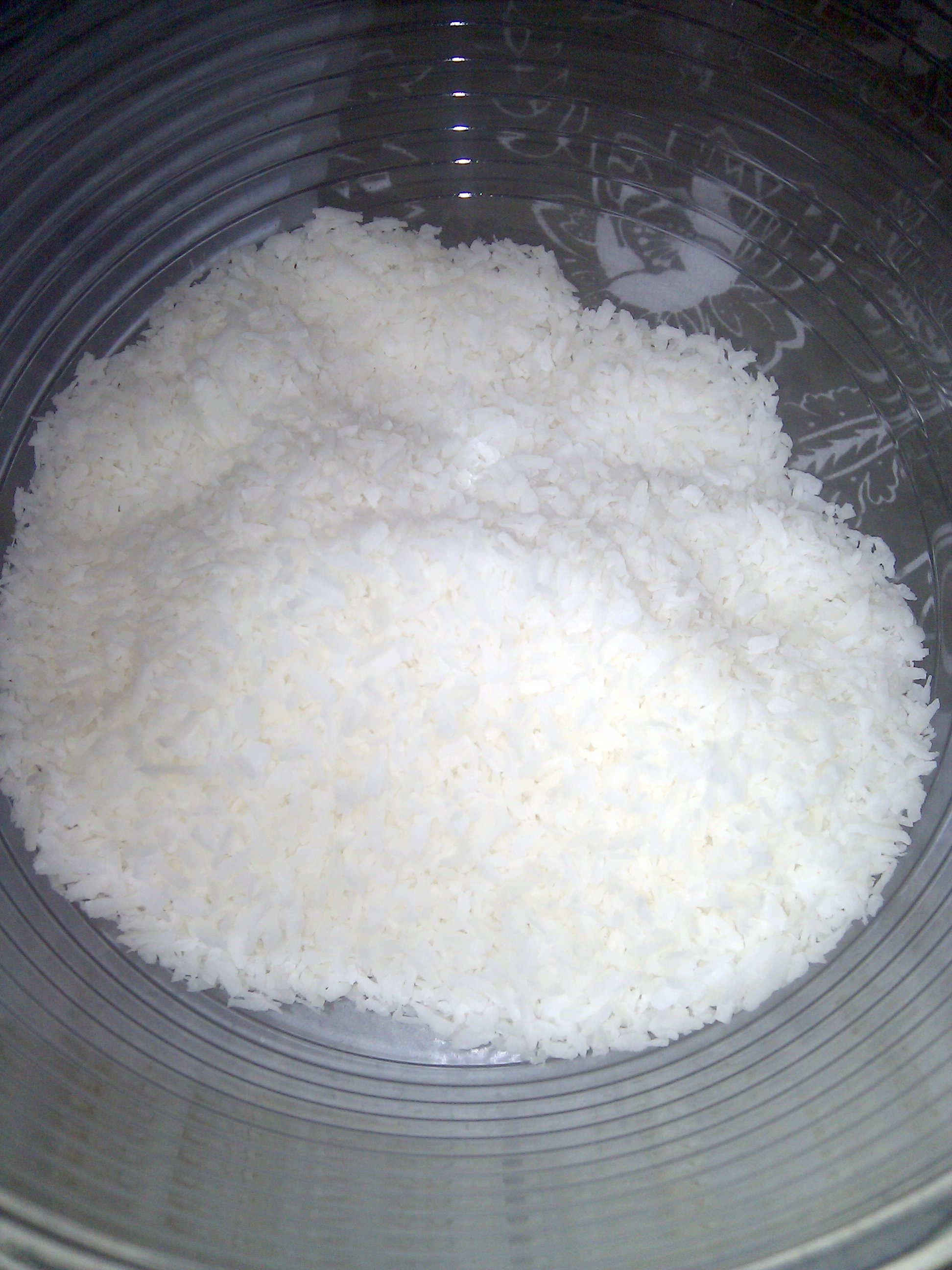 Coconut Cookies